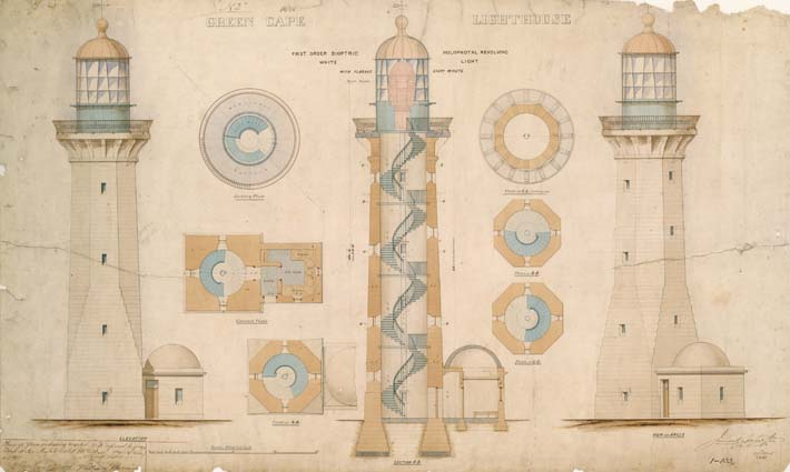 Plans for Green Cape Lighthouse by James Barnet, created 1880. The image is a poster by the National Archives of Australia